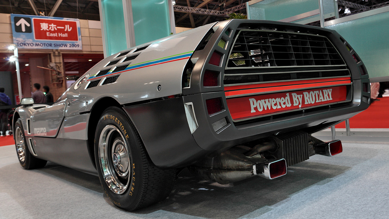 Mazda RX-500 at the 2009 Tokyo Motor Show.